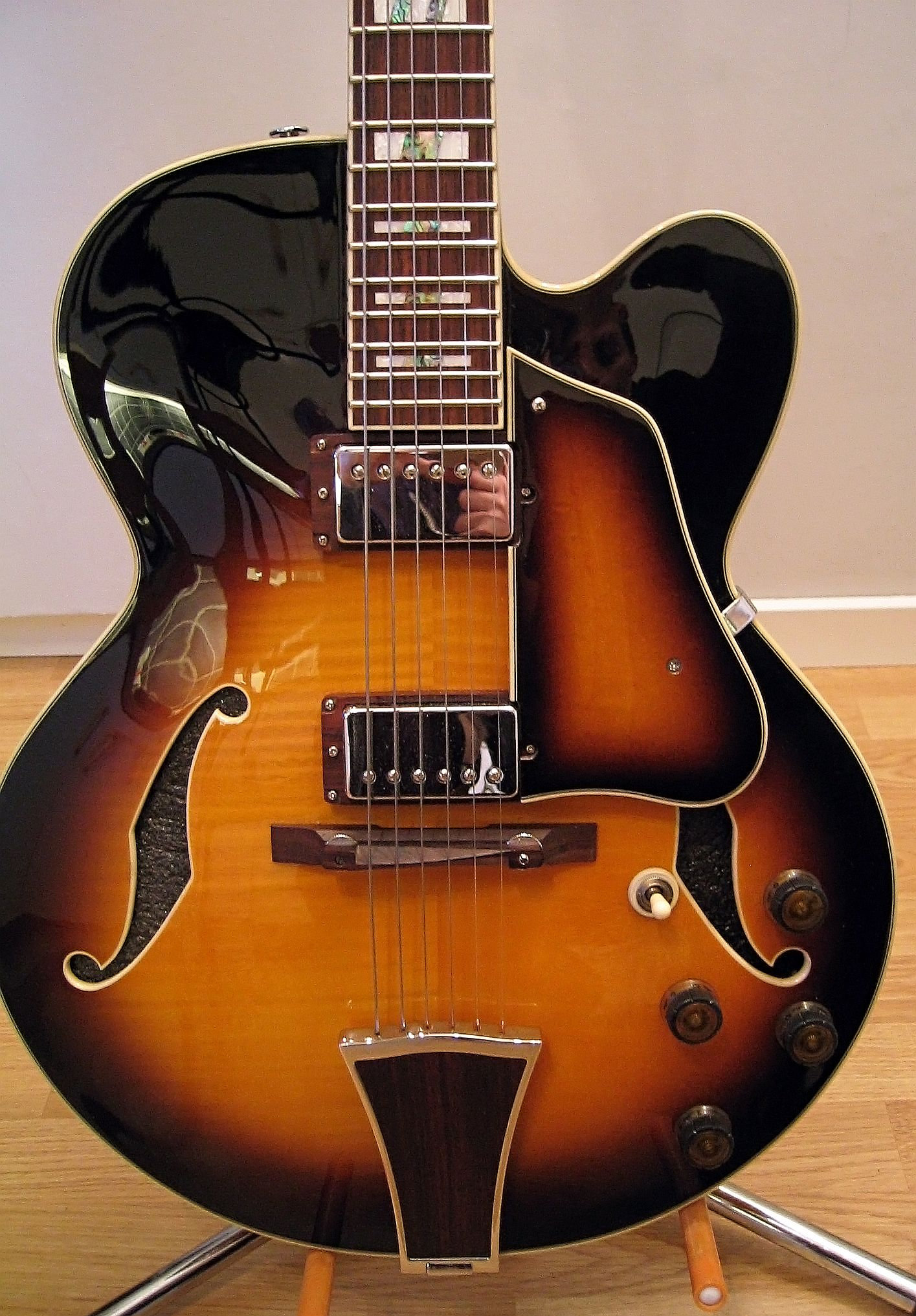 Ibanez AF195